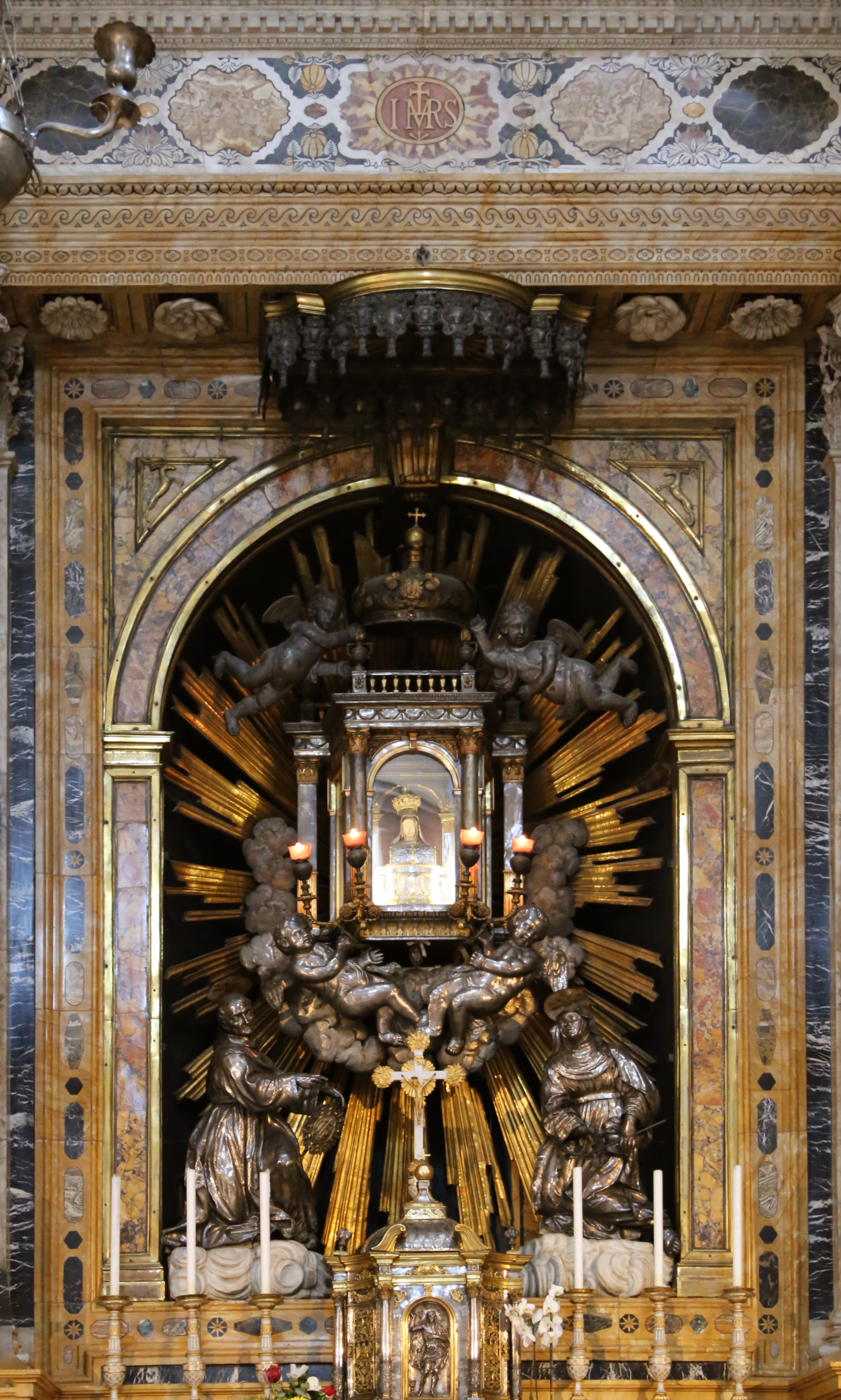 Santa Maria di Provenzano (Siena)